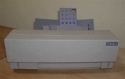 Subject: Alps MD-5500（熱溶融/昇華型の兼用機） Source: photo by Maryu, taken 2006/06/04